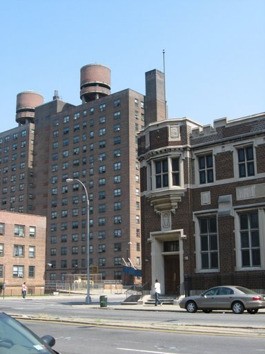 Looking northeast from Mother Gaston Boulevard near Dumont Avenue at the Van Dyke I Houses, an NYCHA apartment complex in the Brownsville section of Brooklyn, New York City.